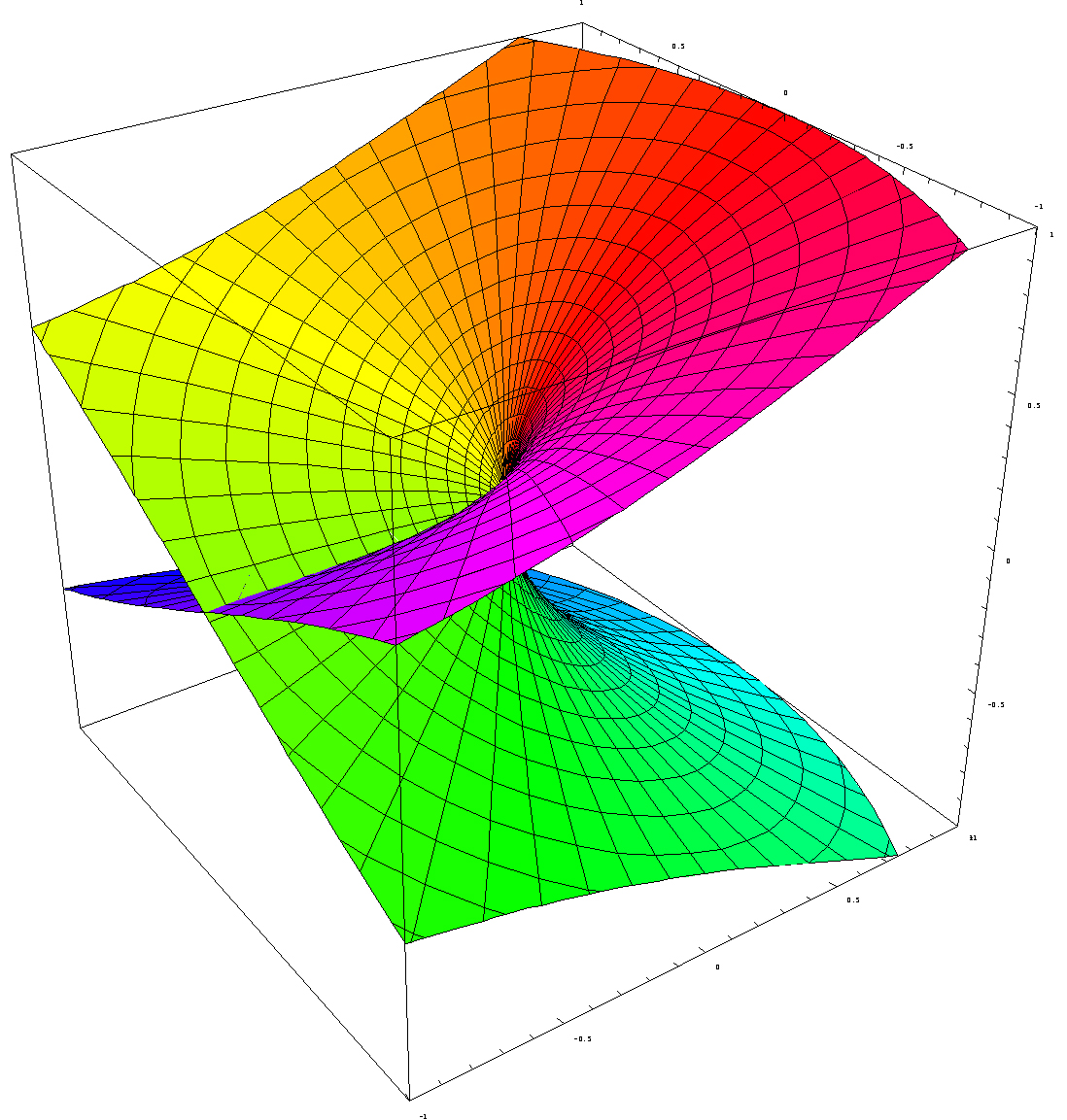 riemann surface of Sqrt[z], projection from 4dim C x C to 3dim C x Re(C), color is argument